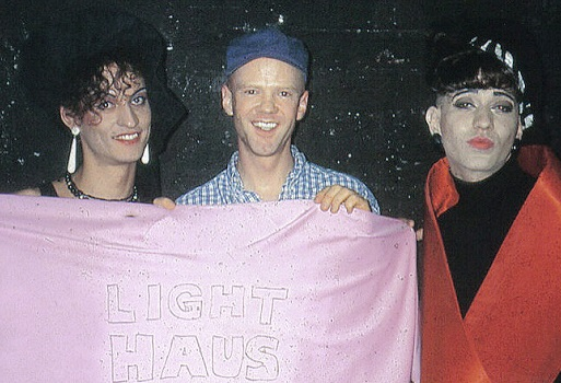 Ovo Maltine, Jimmy Somerville, BeV StroganoV at big spender - AIDS-Benefit 1994